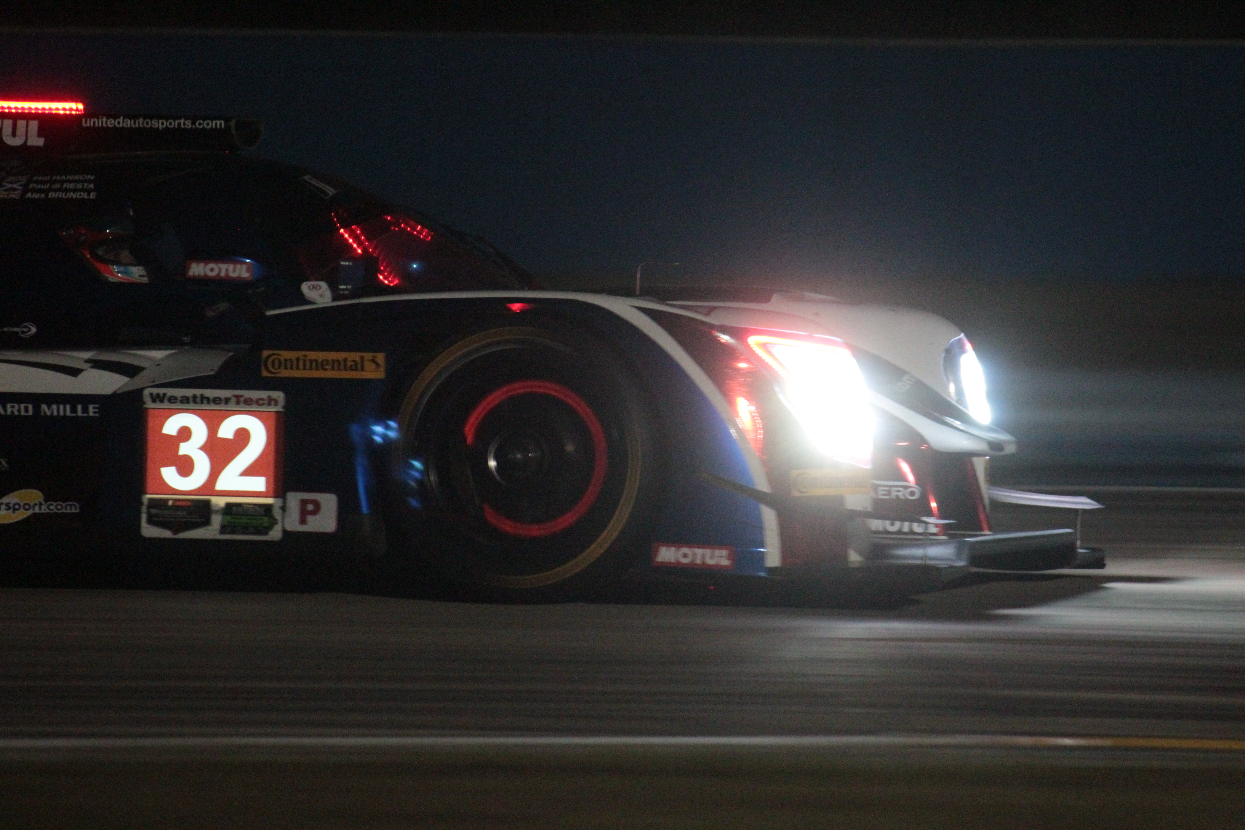 Ligier JS P217 LMP2 with Gibson GK428 4.2 L V8 of United Autosports at 2018 12 Hours of Sebring